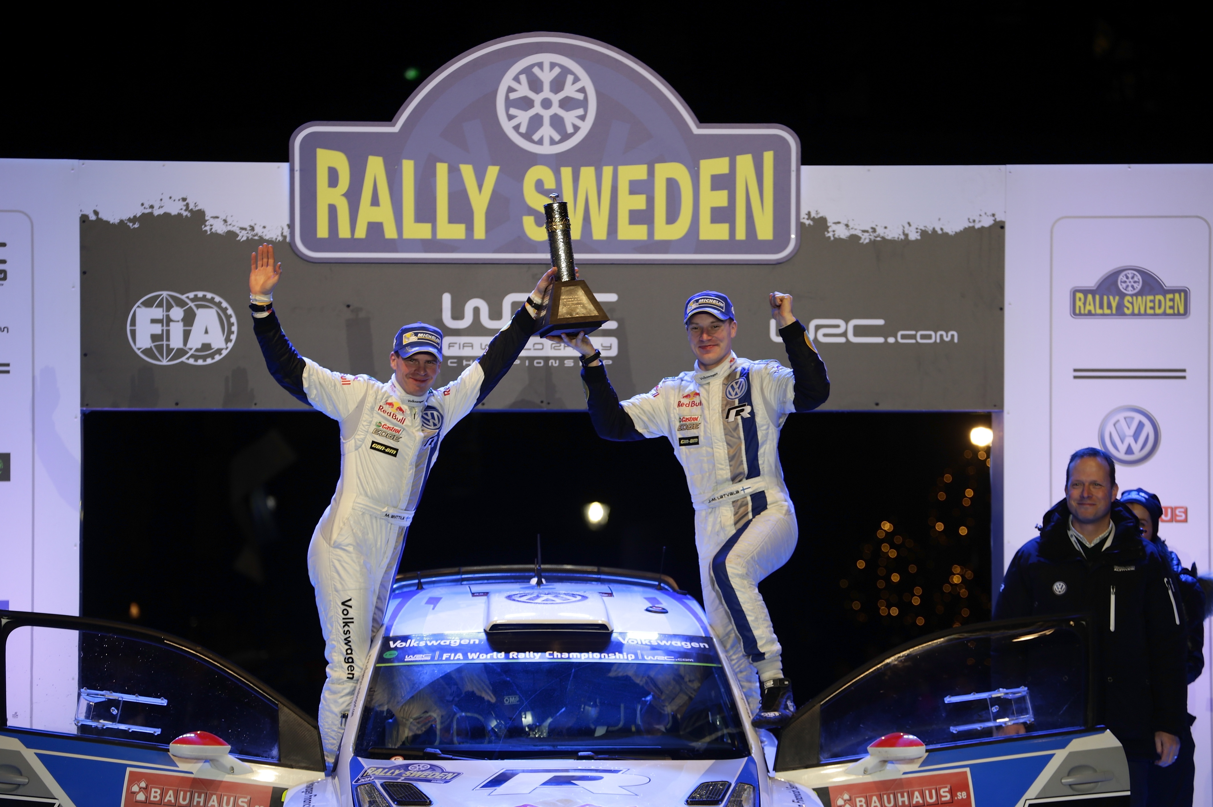 Jari-Matti Latvala and co-driver Miikka Anttila celebrate their win in the 2014 Rally Sweden.